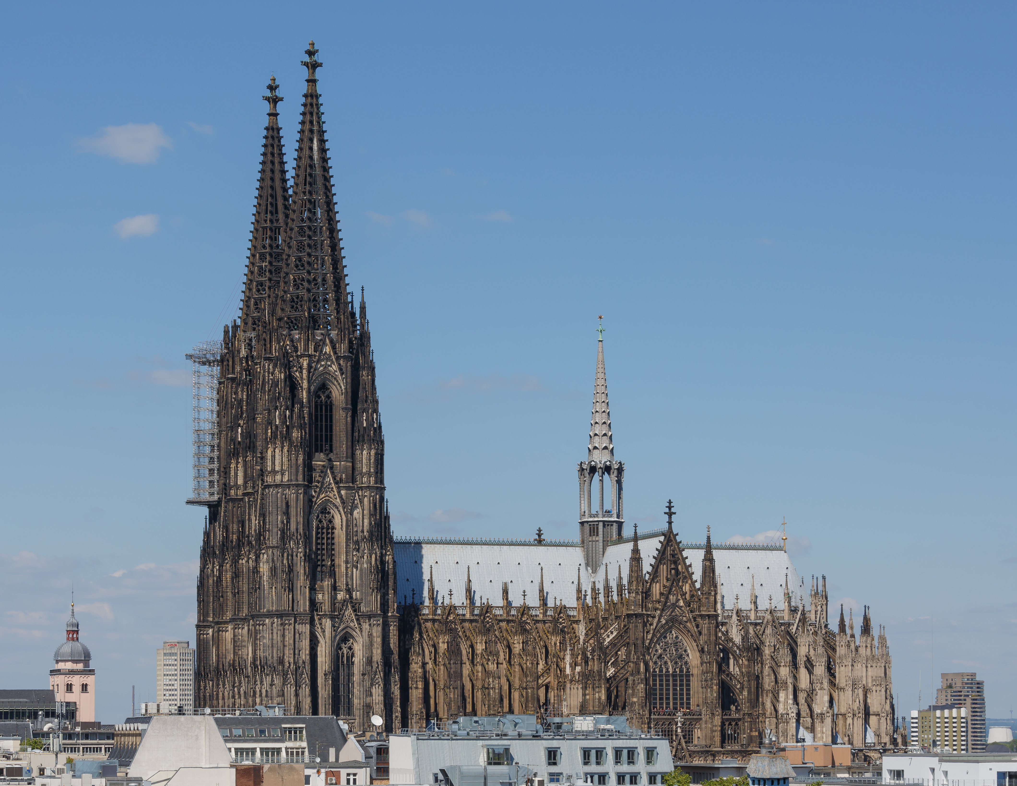 Cologne, Germany: Exterior of Cologne Cathedral